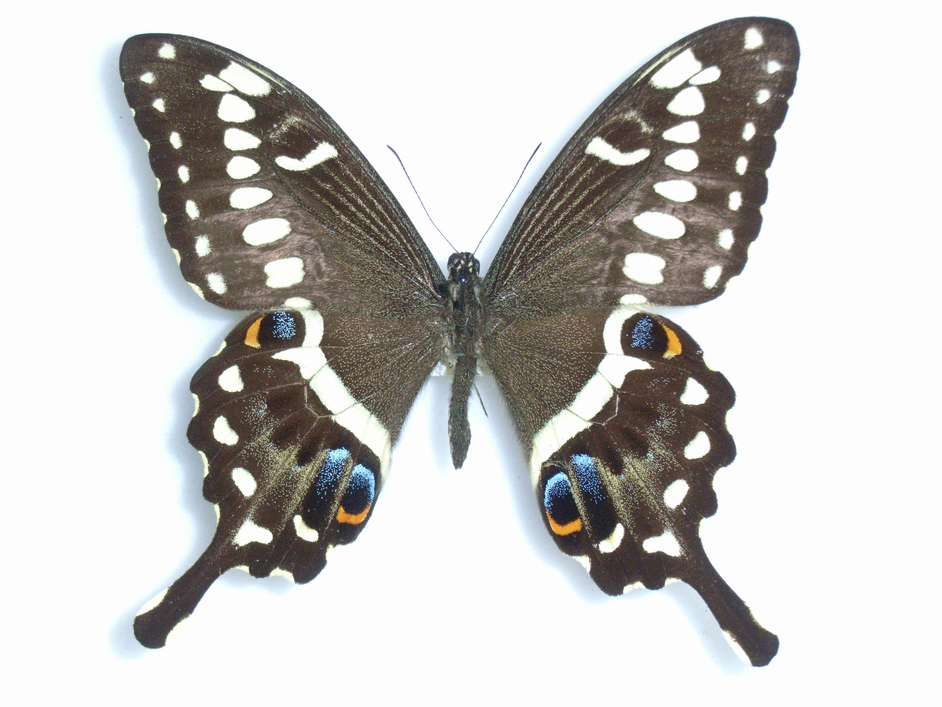 Papilio ophidicephalus transvaalensis van Son,1939